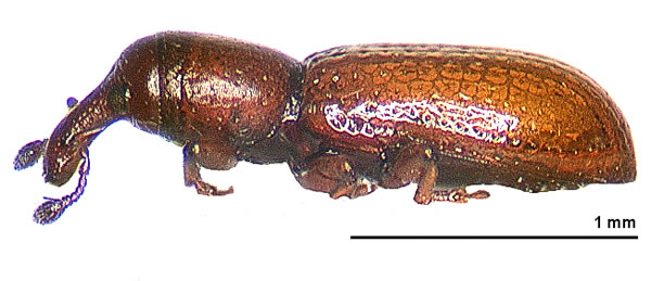 Lateral view of a specimen of Microtribus brouni photographed by Landcare Research New Zealand Ltd.